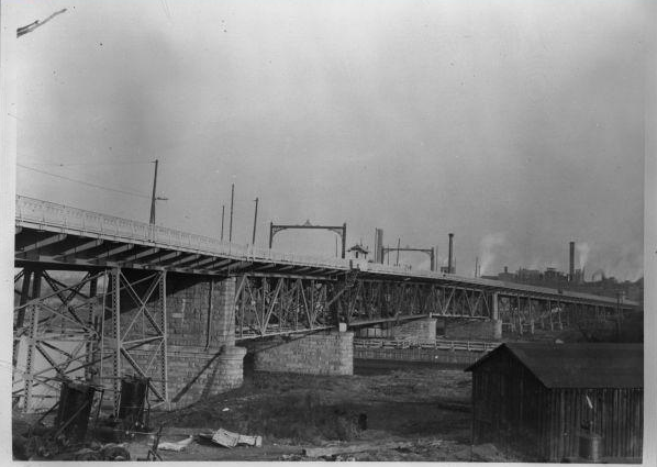 1901 photograph of the Grays Ferry Bridge, which carried automotive traffic and streetcars across the Schuylkill River in southern Philadelphia, Pennsylvania, until it was replaced in 1976. Built in 1901, it replaced the street-traffic function of the 1838 Newkirk Viaduct (also known as the Gray's or Grays Ferry Bridge), which carried trains and road traffic.